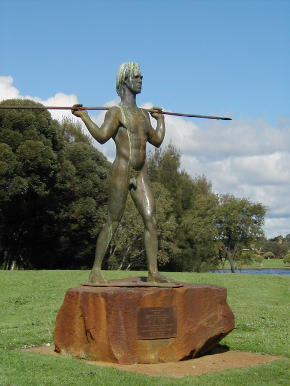 This is a photograph of a bronze status of Yagan that stands on Heirisson Island, Perth, Western Australia. The statue was sculpted in en:1984 by Robert Hitchcock.